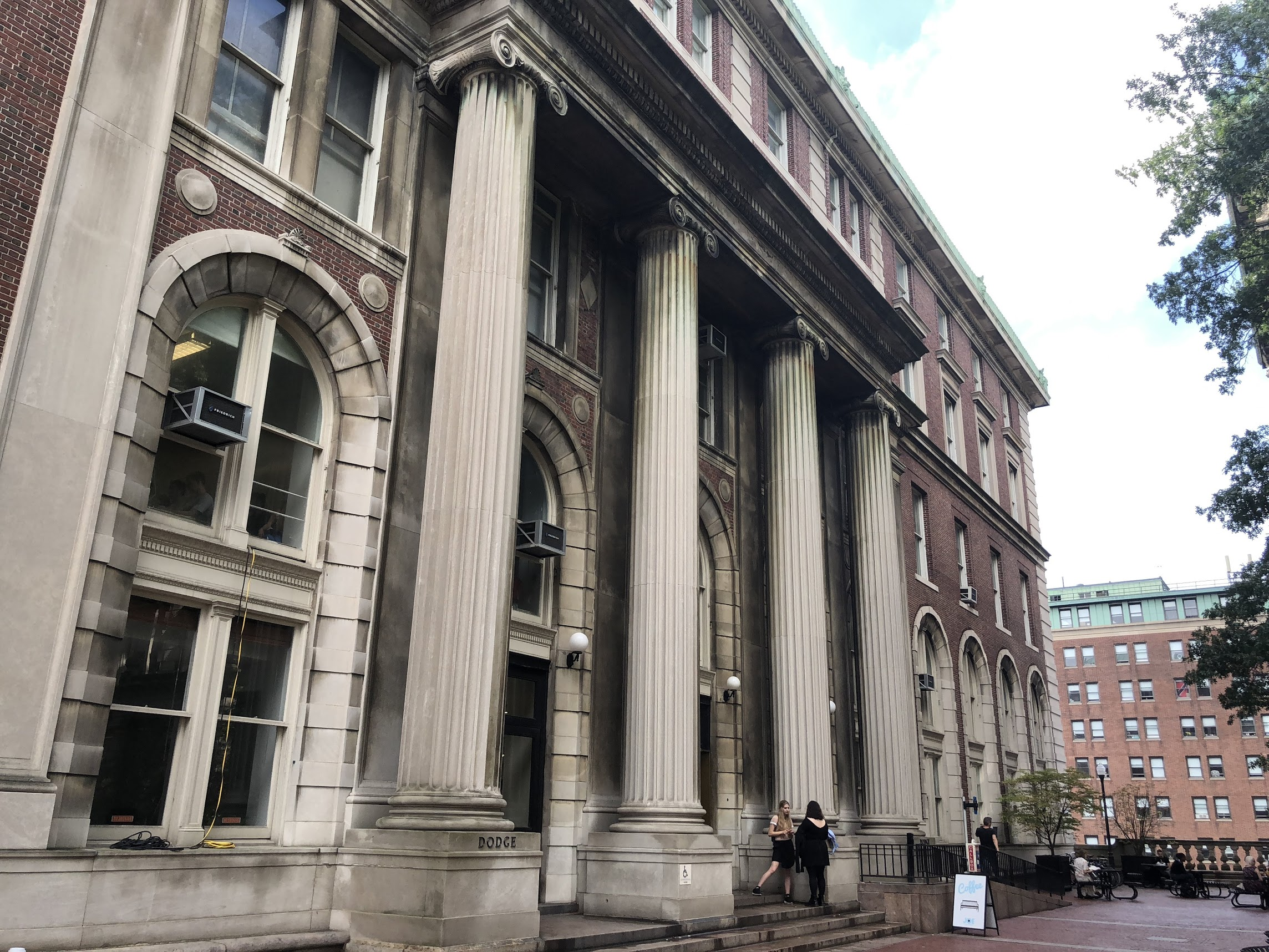 Dodge Hall (School of theArts), Columbia University